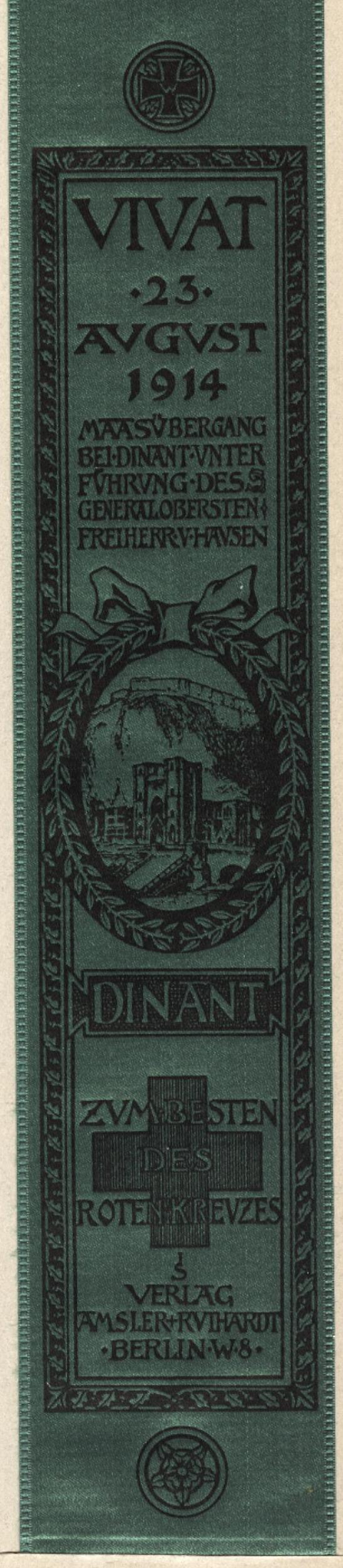 World War I Vivat ribbon showing Dinant (Belgium). Words: "Vivat 23. August 1914 Dinant" "Maasübergang bei Dinant unter Führung des Generalobersten Freiherr v. Hausen" "Zum Besten des Roten Kreuzes" Printed by Amsler & Ruthardt in Berlin